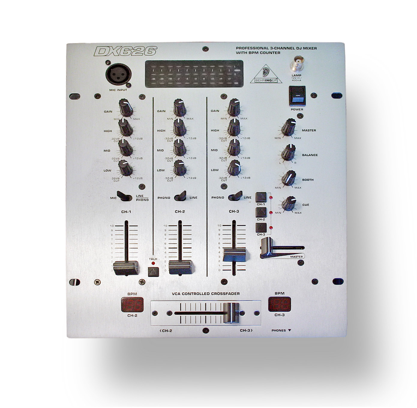 Behringer DX-626 DJ mixer. Picture created October 10 2006, altered October 11 2006.